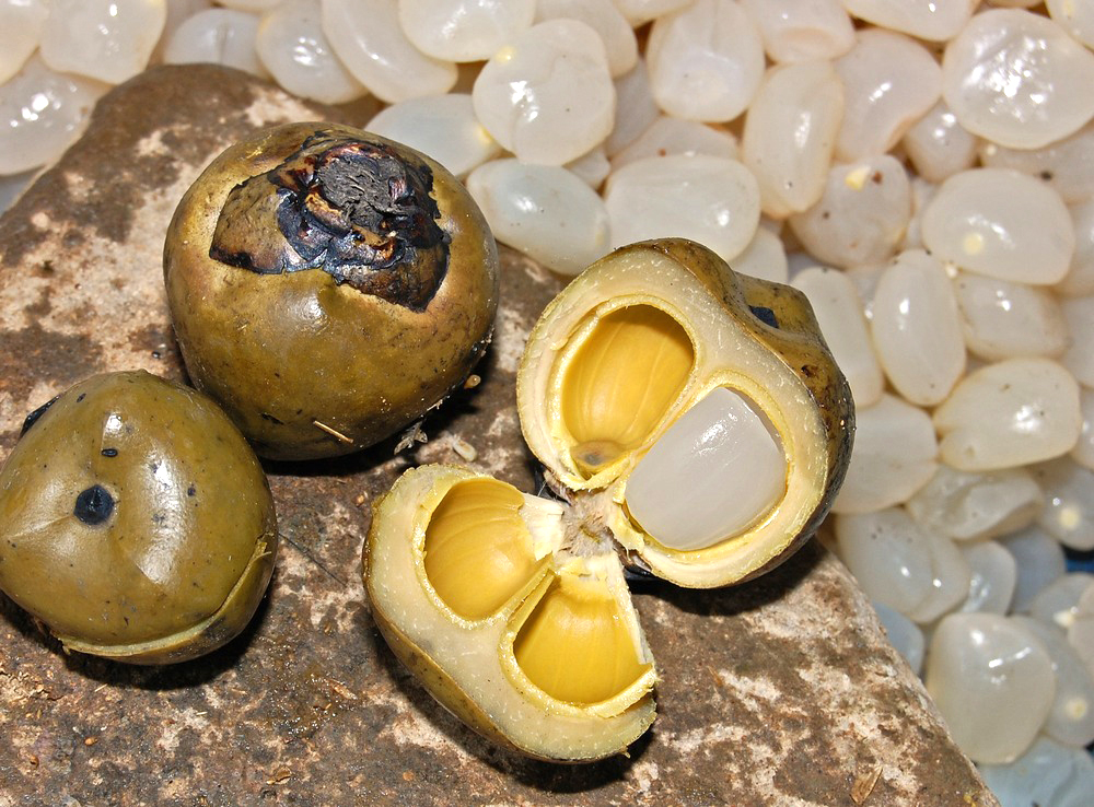 Boiled and opened Arenga pinnata fruit, showing its endosperm. Sirnarasa, Sukabumi, West Java, Indonesia